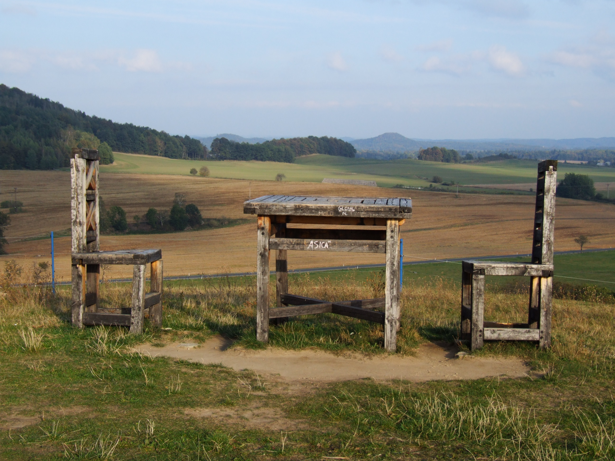 Lánský vrch (Skorošice), Czech Silesia